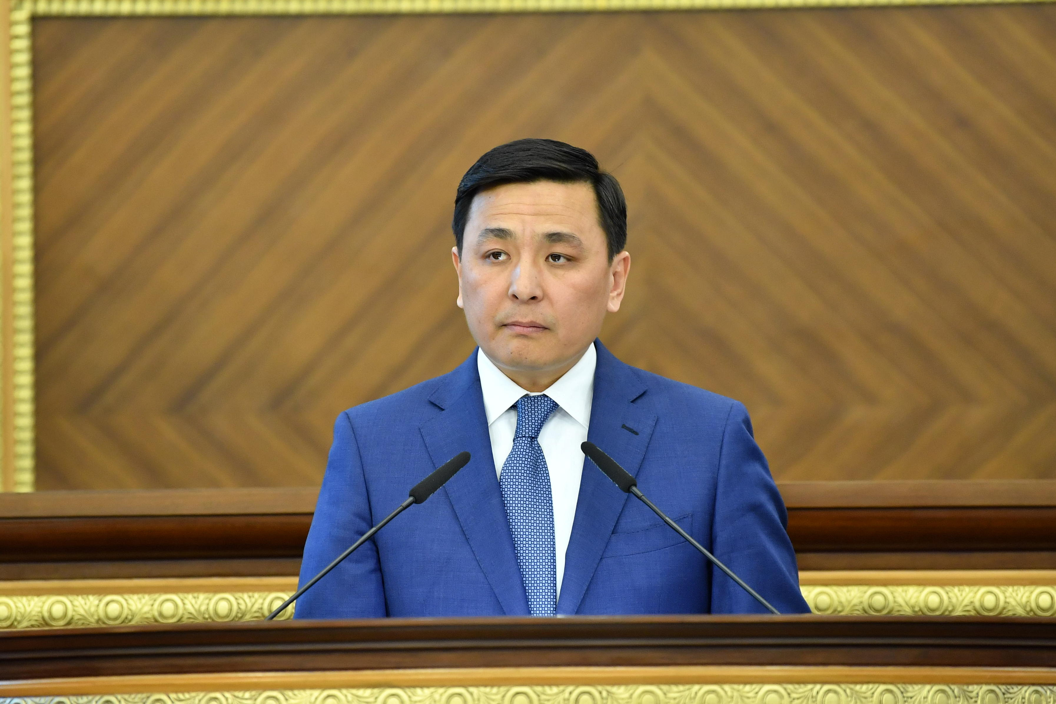 Akim of West Kazakhstan Region Altai Kolginov at the Mazhilis Committee.